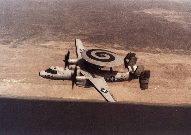 A U.S. Navy Grumman E-2C Hawkeye (BuNo 162799) of Carrier Airborne Early Warning Squadron VAW-123 "Screwtops" in flight during the 1991 Gulf War. VAW-123 was assigned to Carrier Air Wing 1 (CVW-1) aboard the aircraft carrier USS America (CV-66) for a deployment to the Persian Gulf from 28 December 1990 to 18 April 1991.